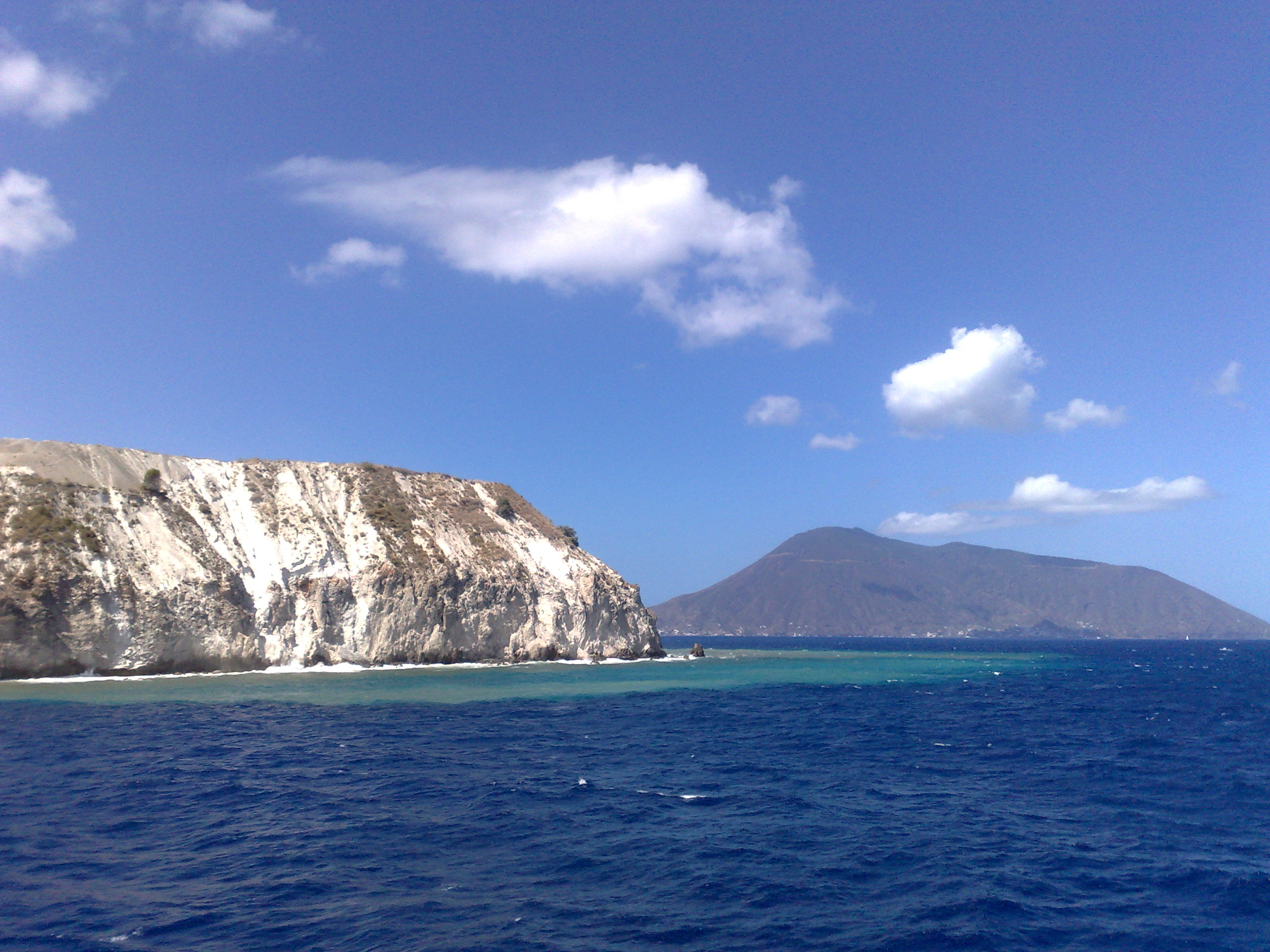 Lipari and Salina